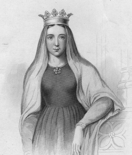 Matilda of Boulogne, queen of England